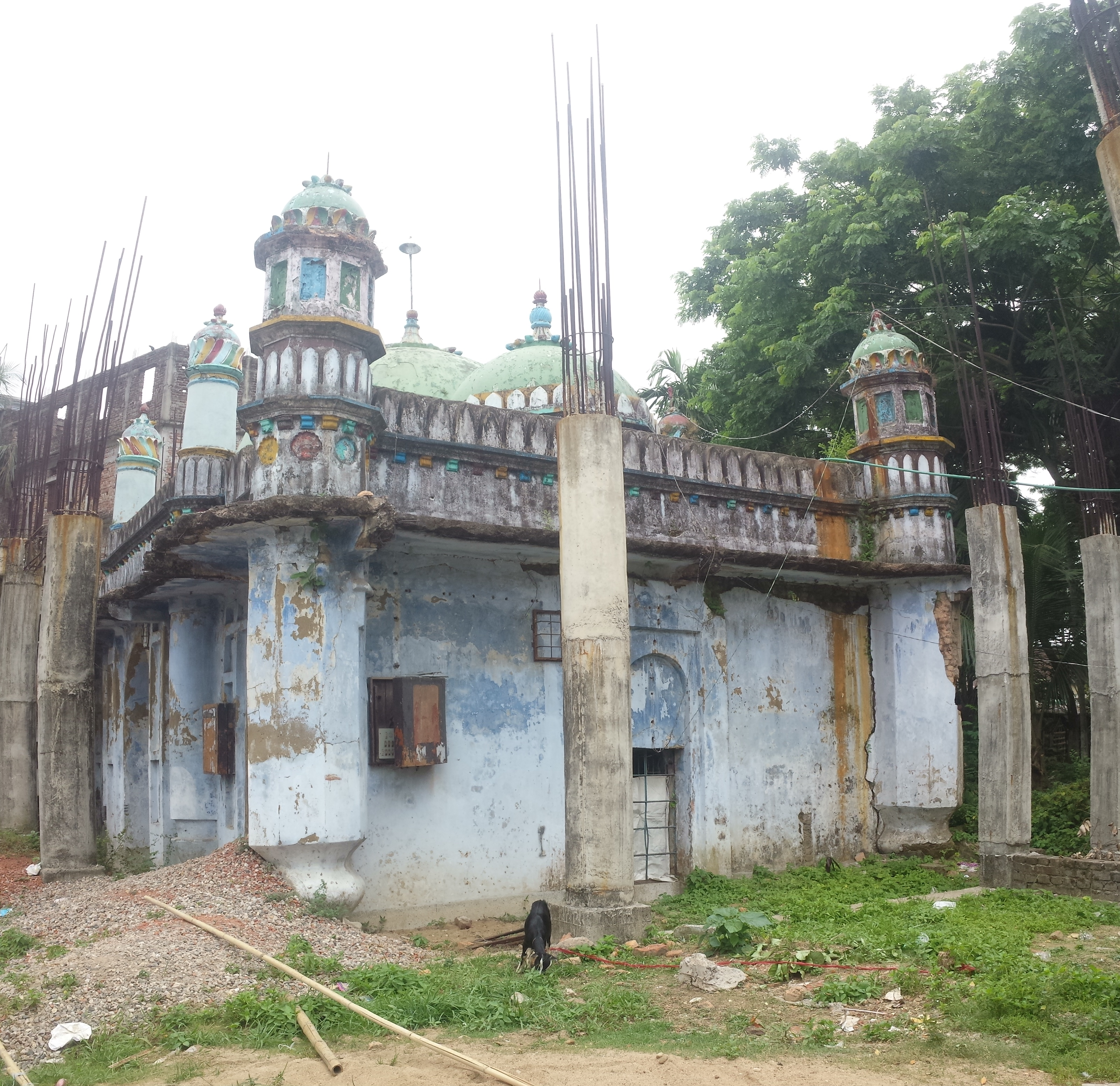 Baizid Bastami Shrine old building